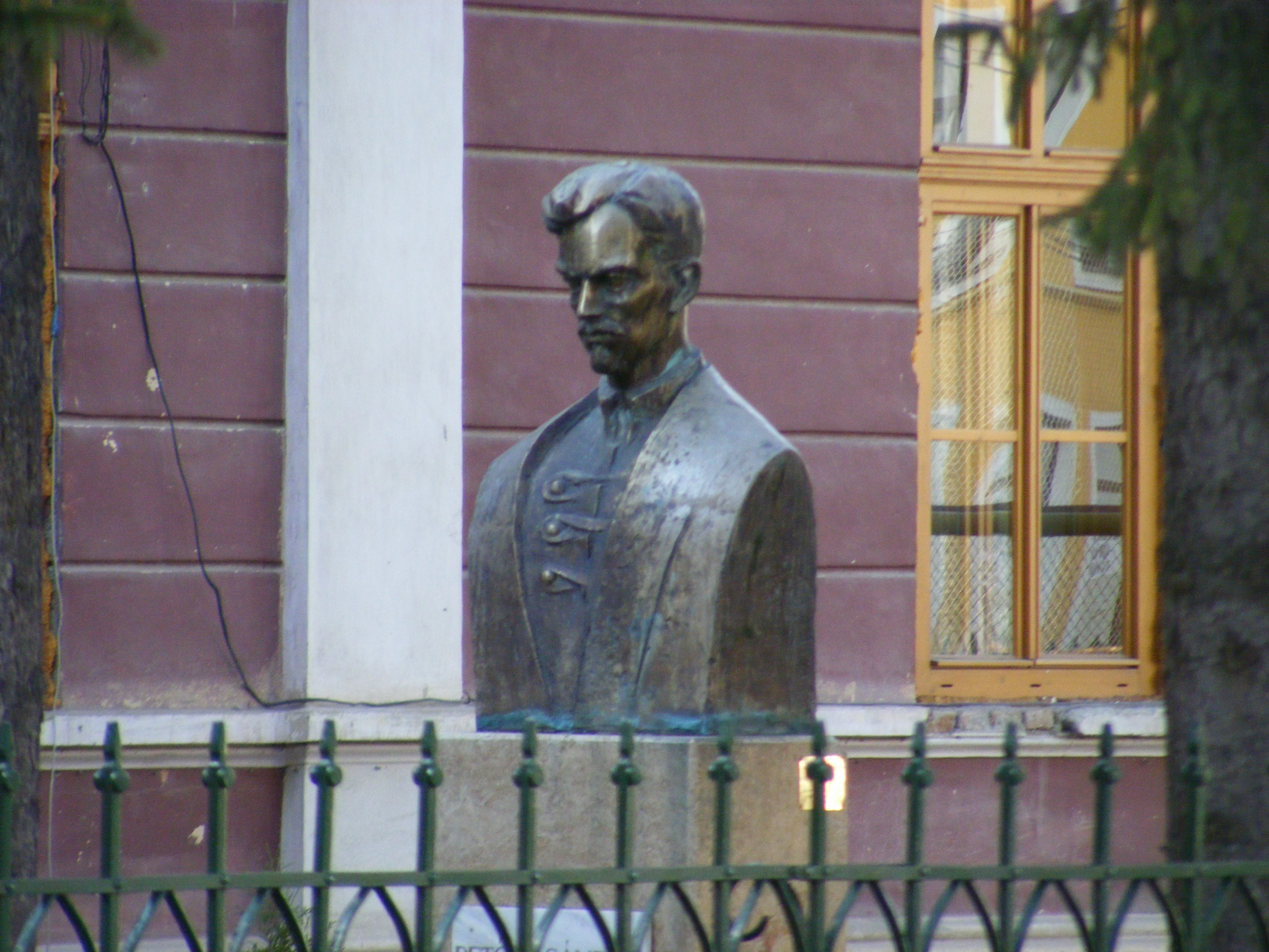 Petőfi Sándor's statue in Csíkszereda.